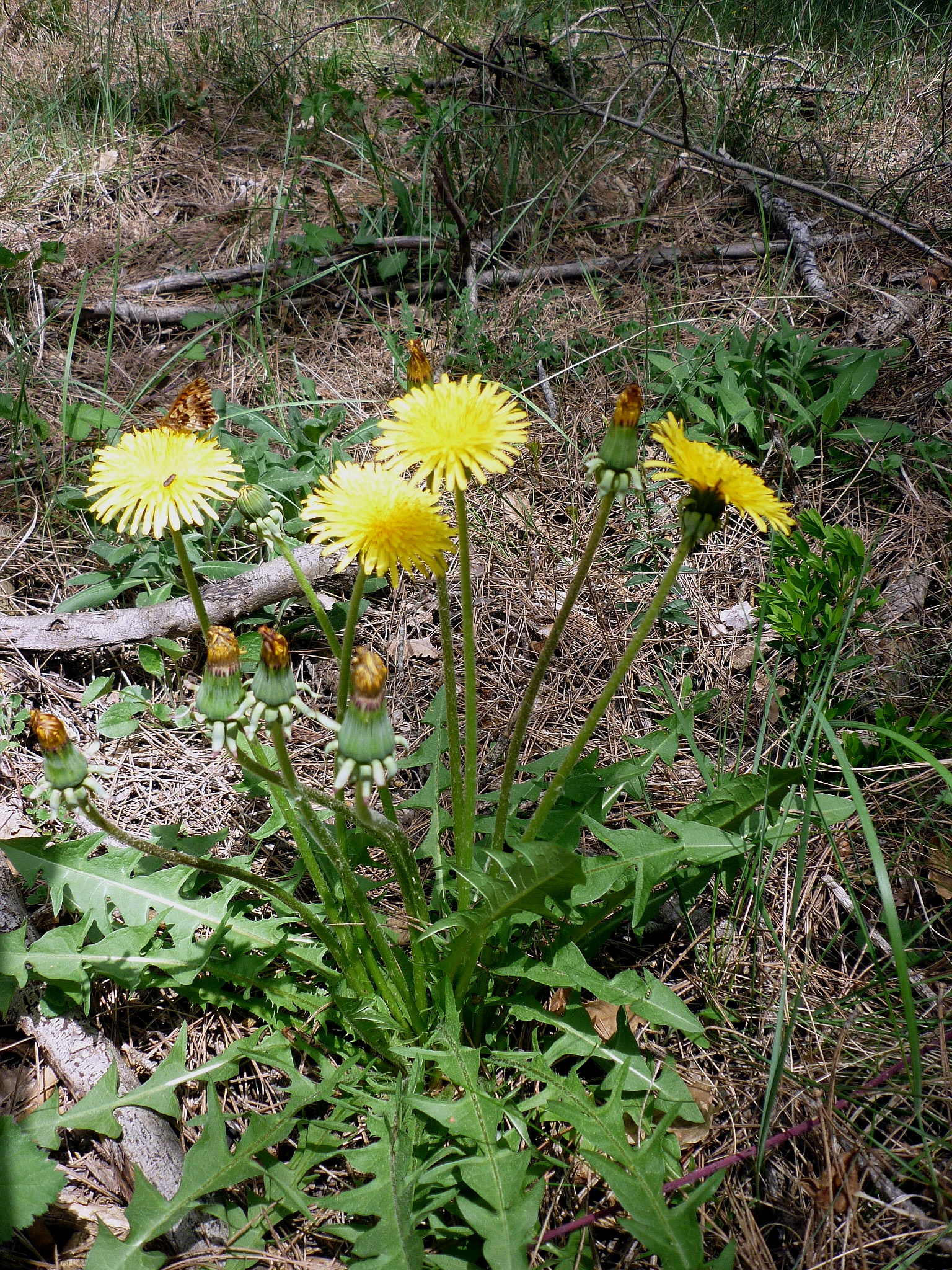 Taraxacum officinale. In Torà (Segarra - Catalunya). To 580 m. altitude